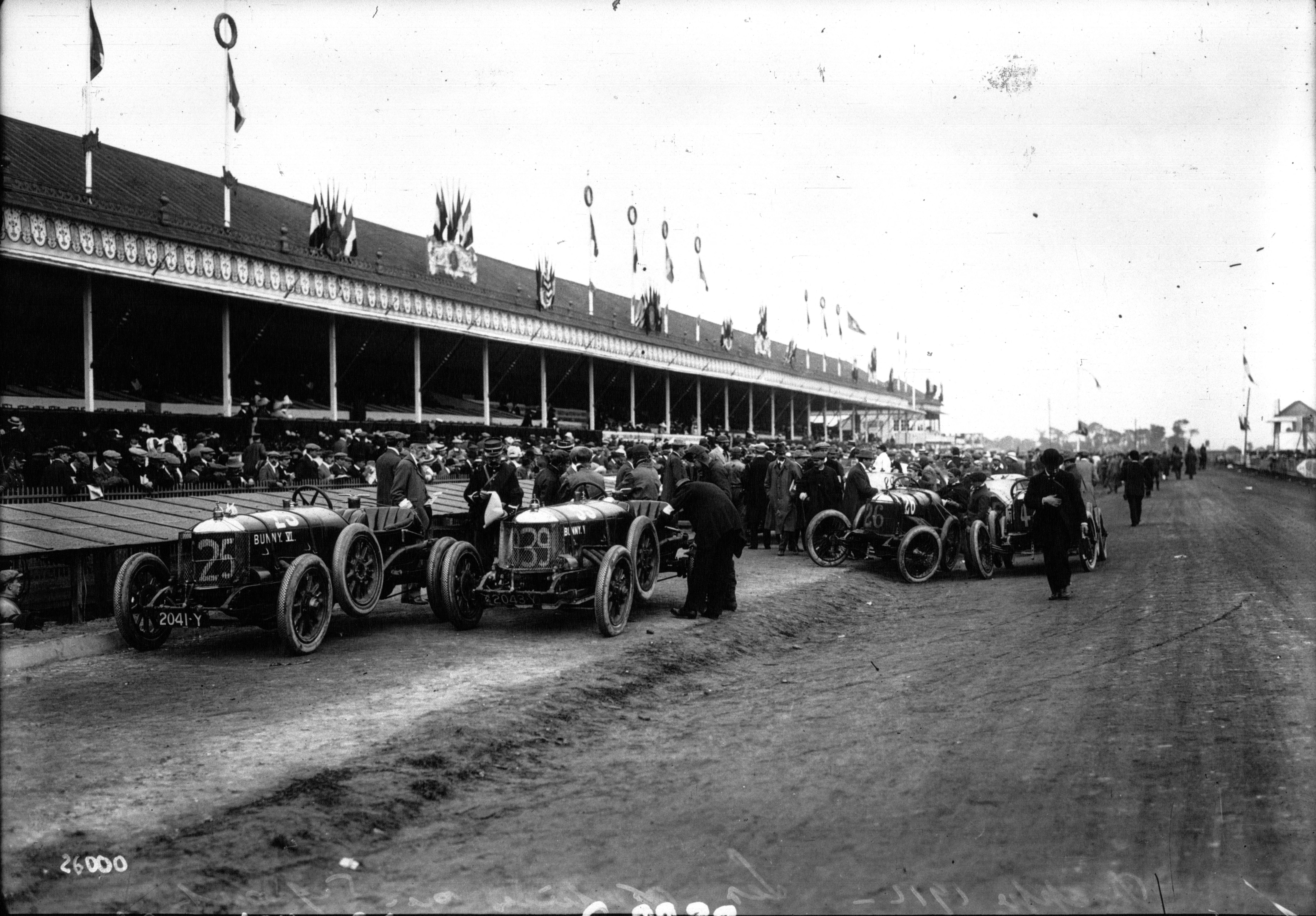 Cars lined up to start at the 1912 French Grand Prix at Dieppe.